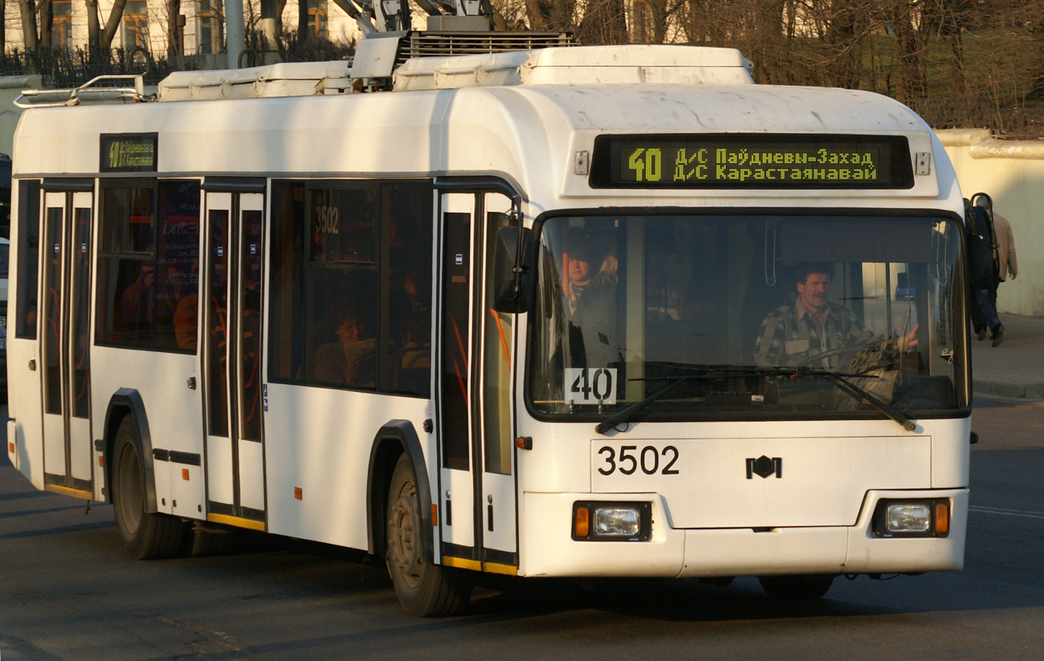 AKCM-321 trolleybus in Minsk